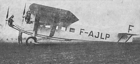 Farman F.300 photo from Annuaire de L'Aéronautique 1931